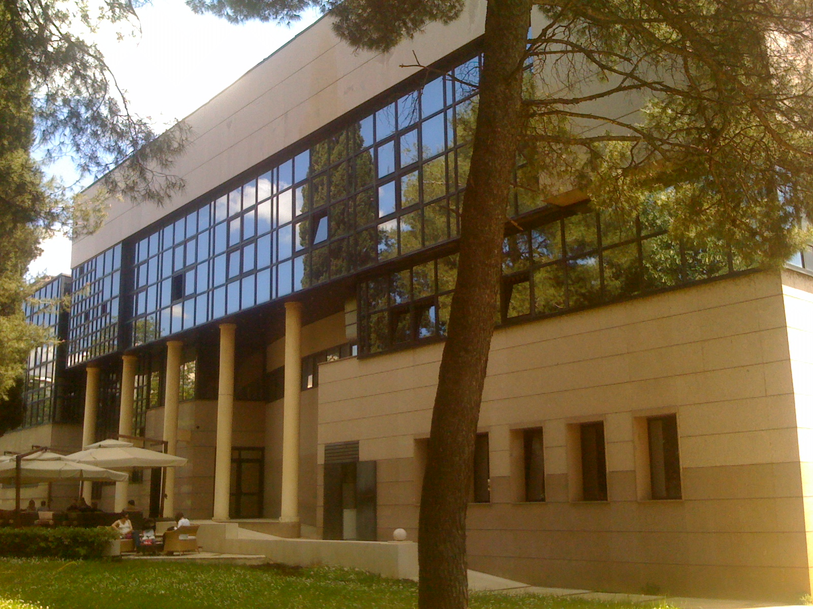 Montenegrin national theather